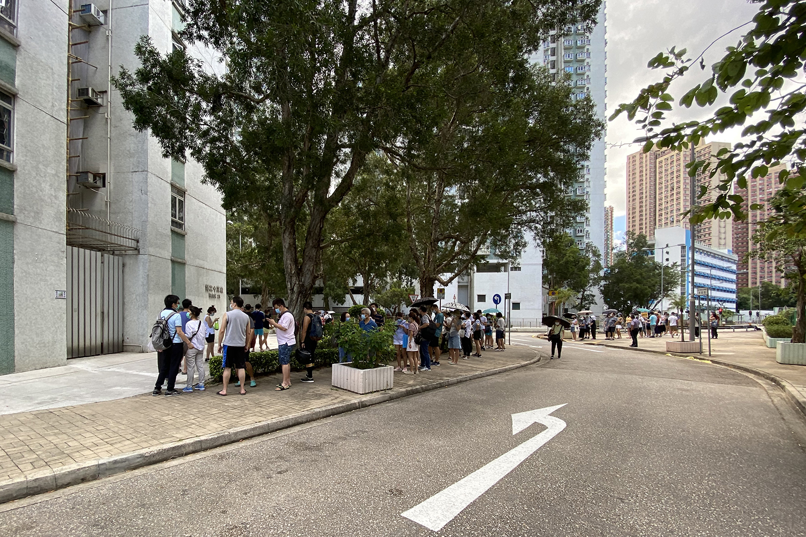 Hong Kong democrats’ primary election in Cityone Shatin queue